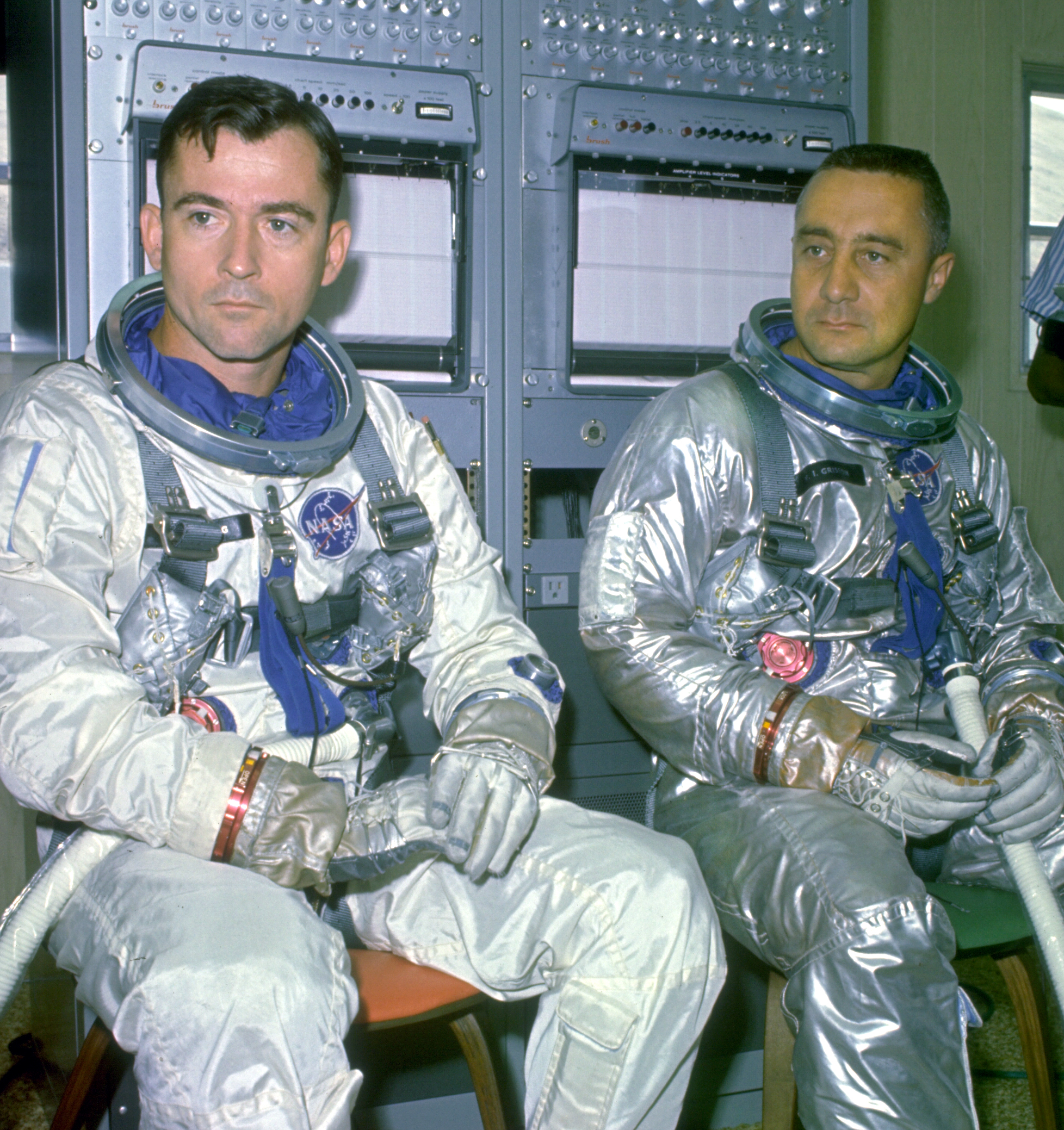 Astronauts John W. Young (left) and Virgil I. "Gus" Grissom take part in training exercises as the back-up Crew for the Gemini 6 mission which will feature the first "docking" of two spacecraft in orbit.